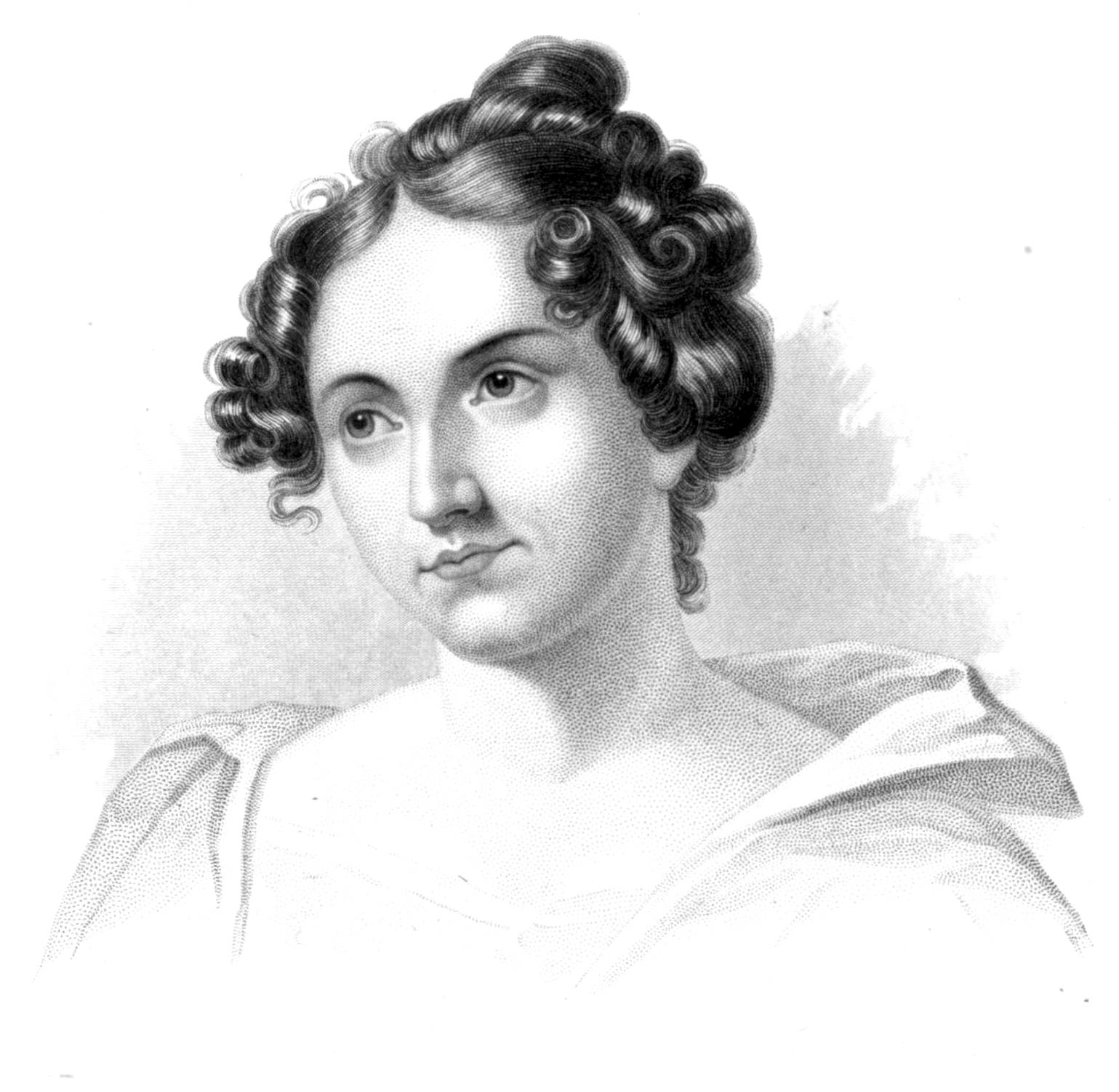 Illustration, depicting Catharine Maria Sedgwick from the book Female Prose Writers of America by John Seely Hart.